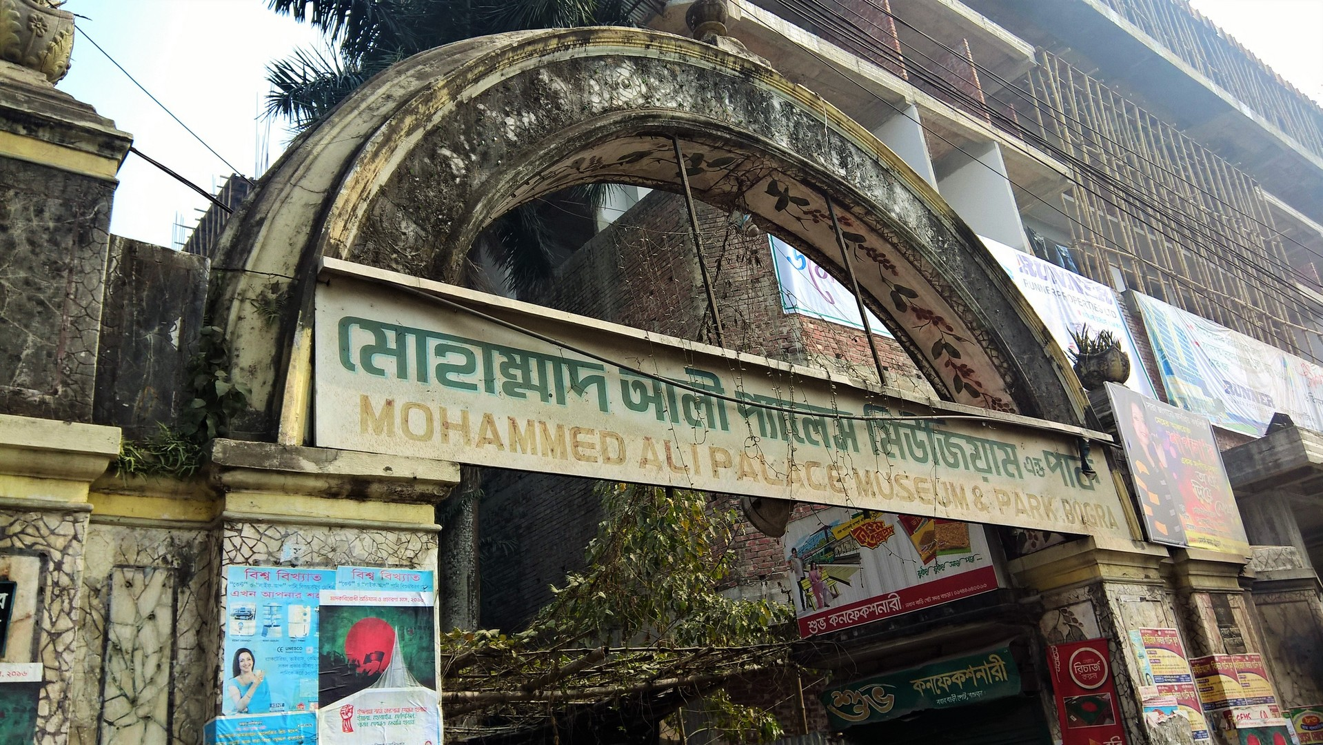 Mohammed Ali Palace Museum & Park also known as Palace Museum in Bogra is the eminent archaeological sight located in Bogra.